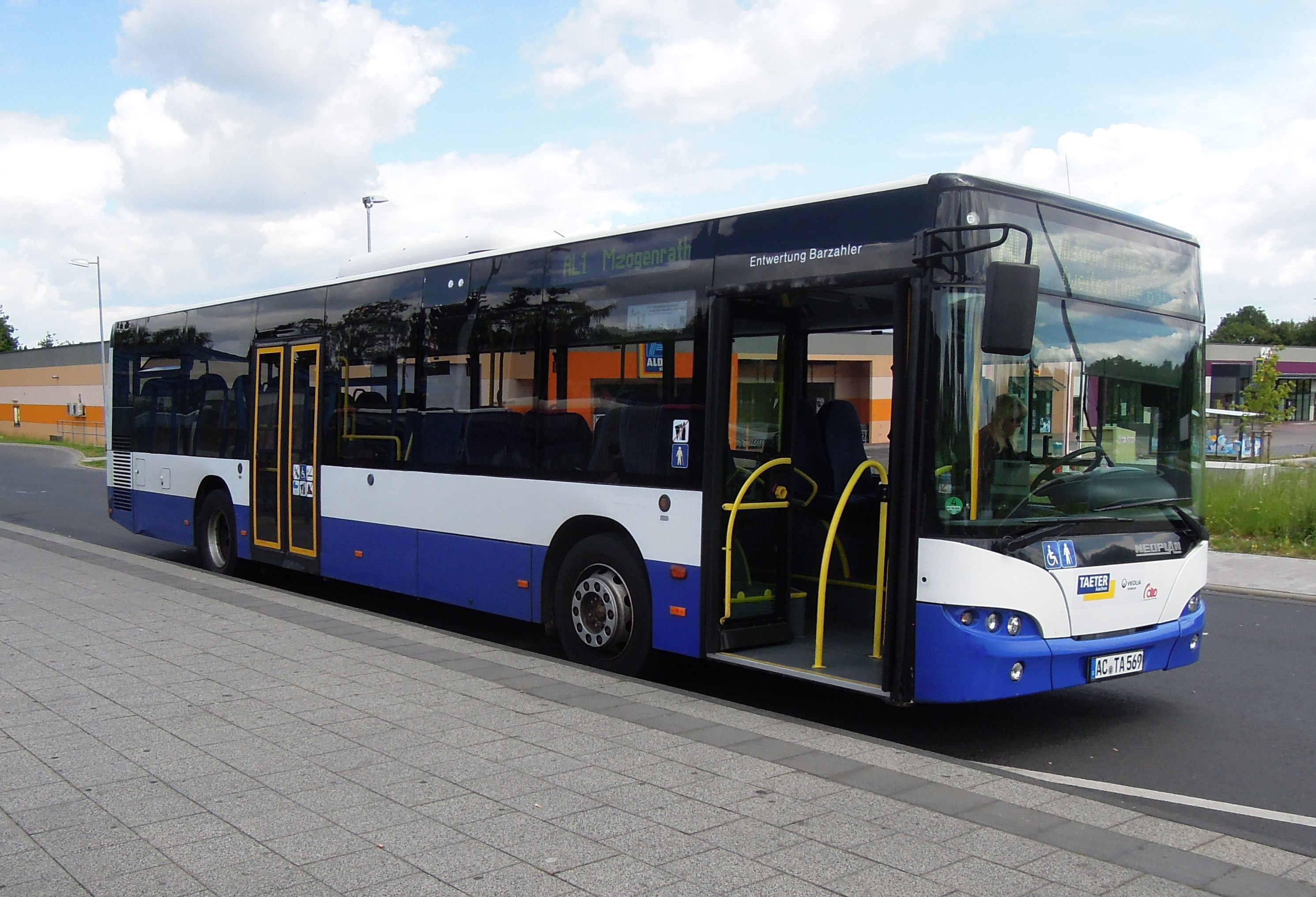 City bus in the Städteregion Aachen in the summer of 2014.